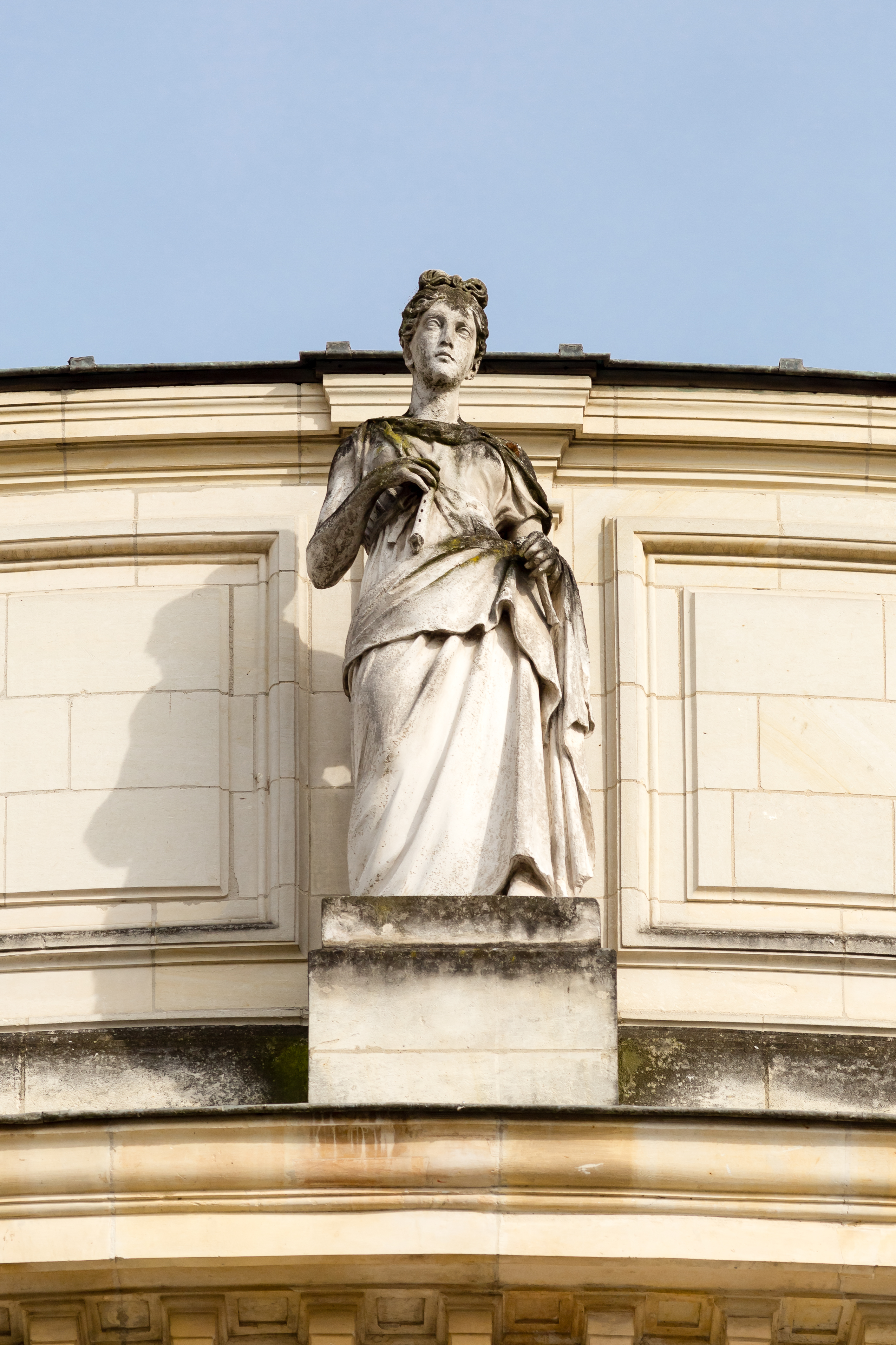 Depicted person: Terpsichore